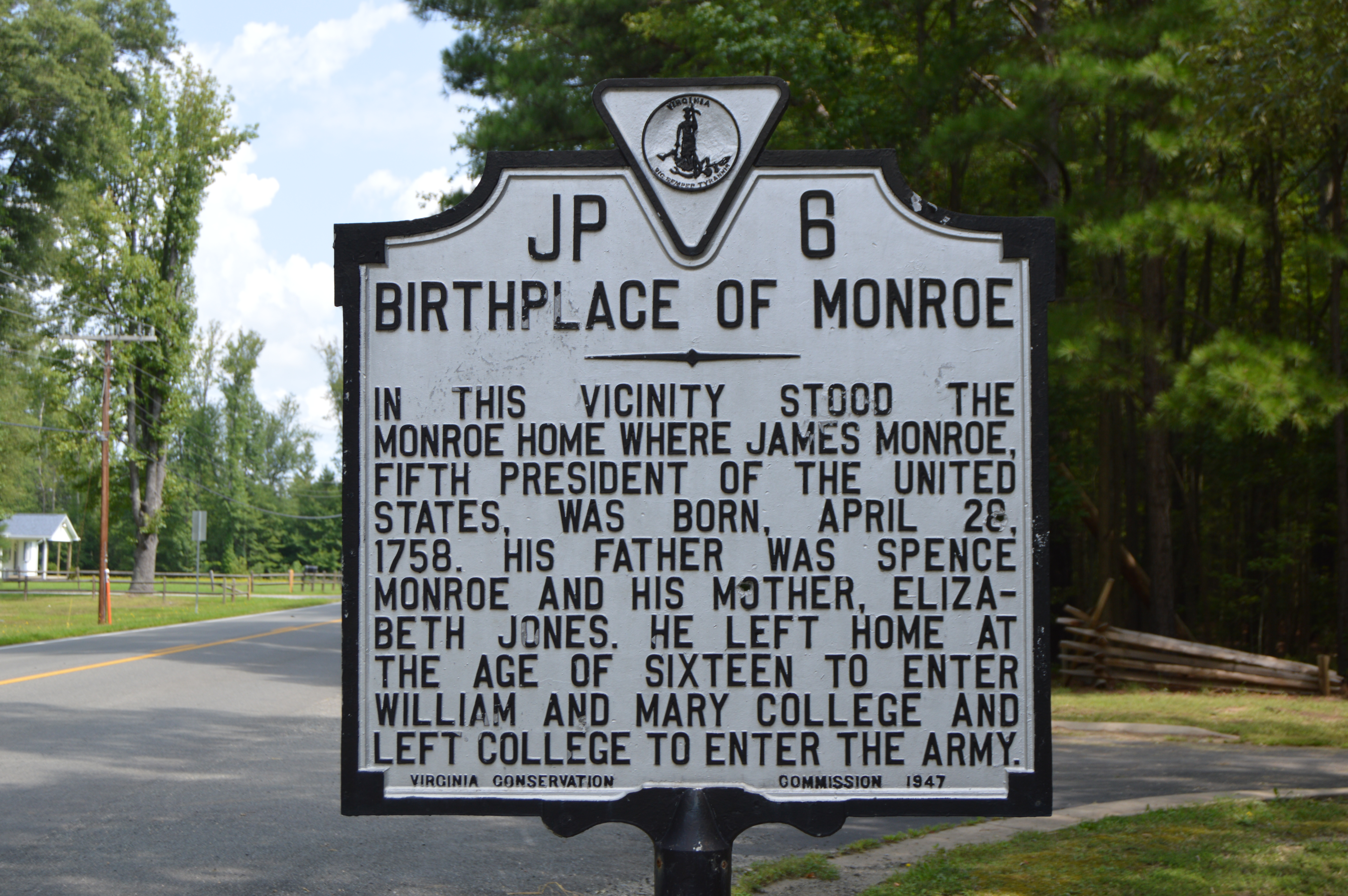 A historical marker on State Route 205 at the entrance to the James Monroe Family Home Site near Colonial Beach in Westmoreland County, Virginia, United States.